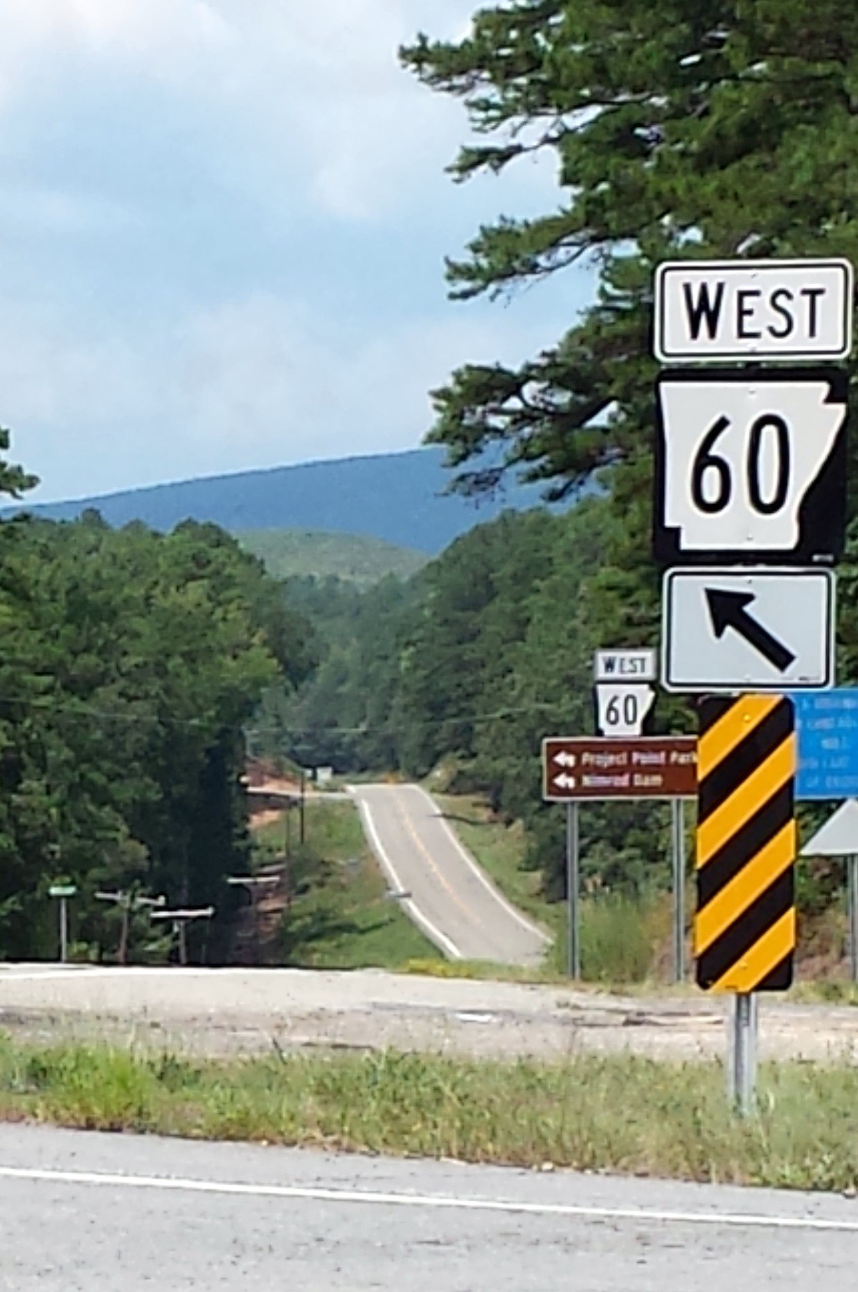 Highway 60 and Highway 7 intersection in Hollis, AR. Looking north.